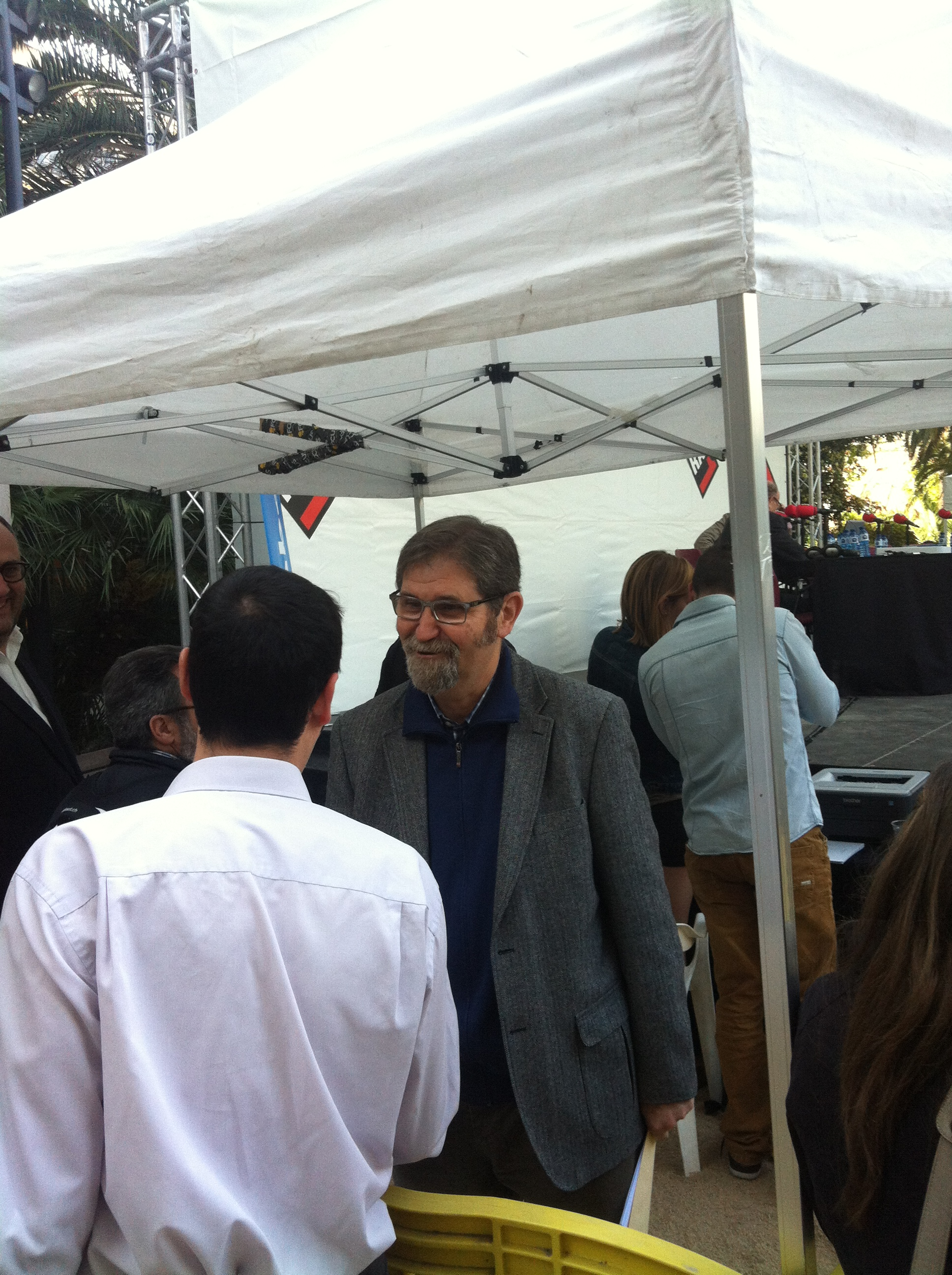 Diada de Sant Jordi 2013, is a major festivity in Catalonia.